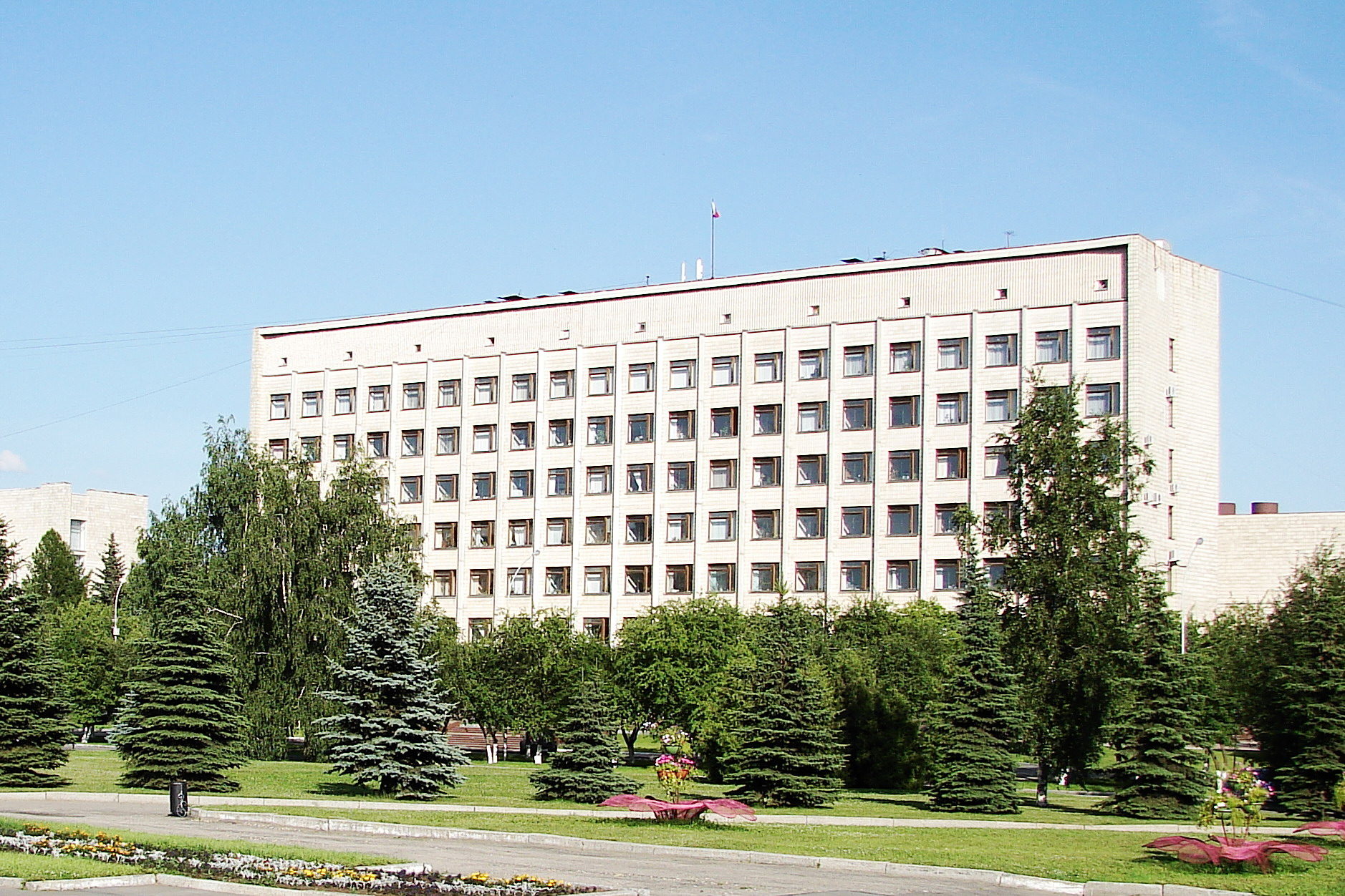 Russia, Vologda, Legislative Assembly of the Vologda region